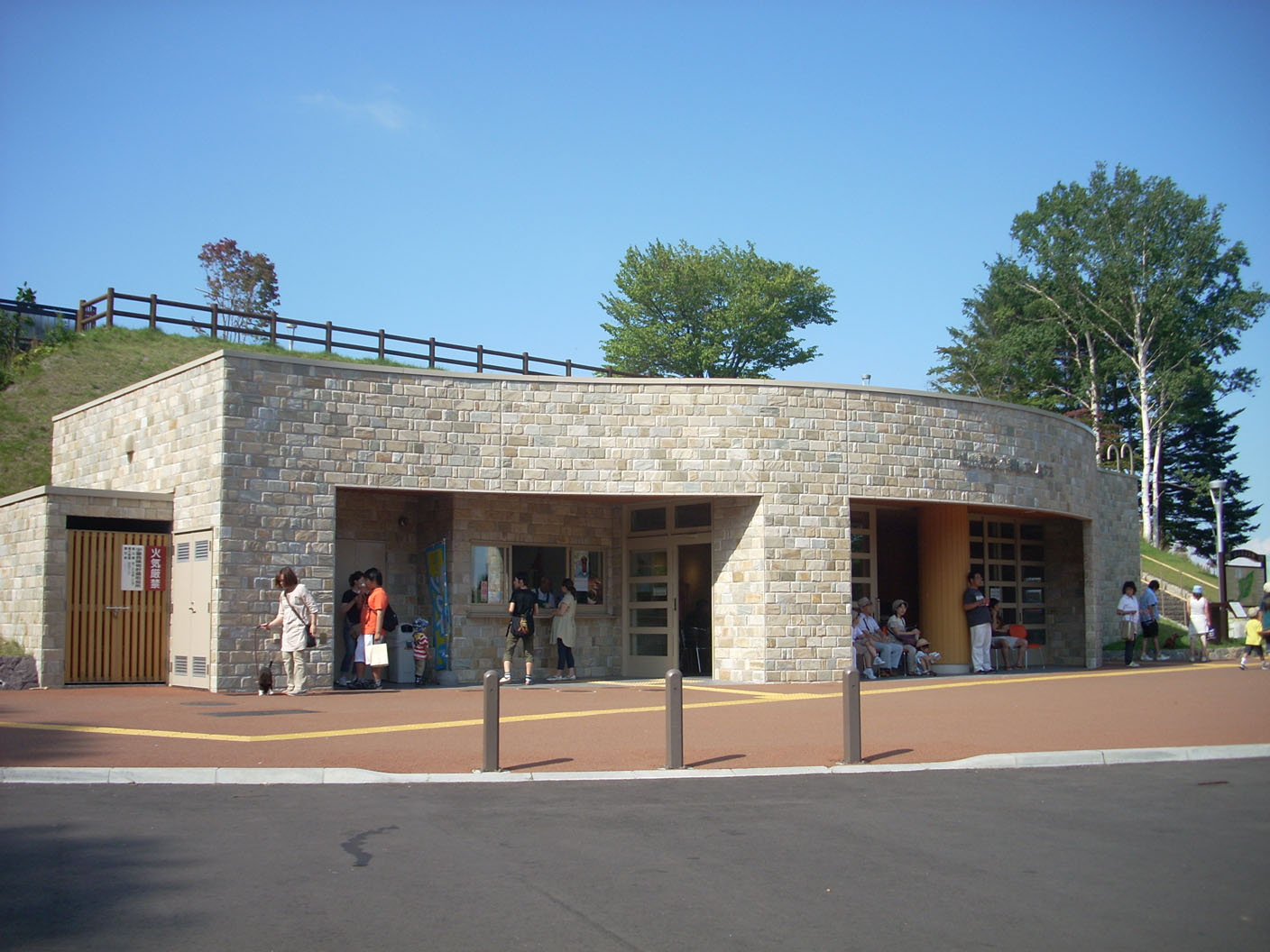 Rest house of Asahiyama memorial park, Chuo-ku, Sapporo, Hokkaido, Japan